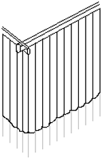 The Imbedded Stave Technique (jordgravne palisader) Sketch by User:ToB (Tom Bjørnstad, Norway)